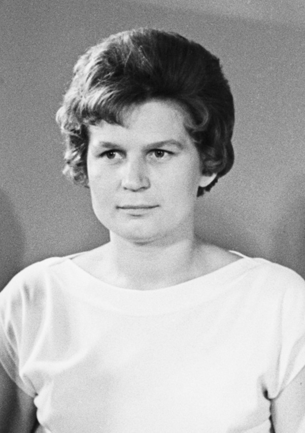 “Pilot-cosmonaut Valentina Tereshkova”. Pilot-cosmonaut Valentina Tereshkova.